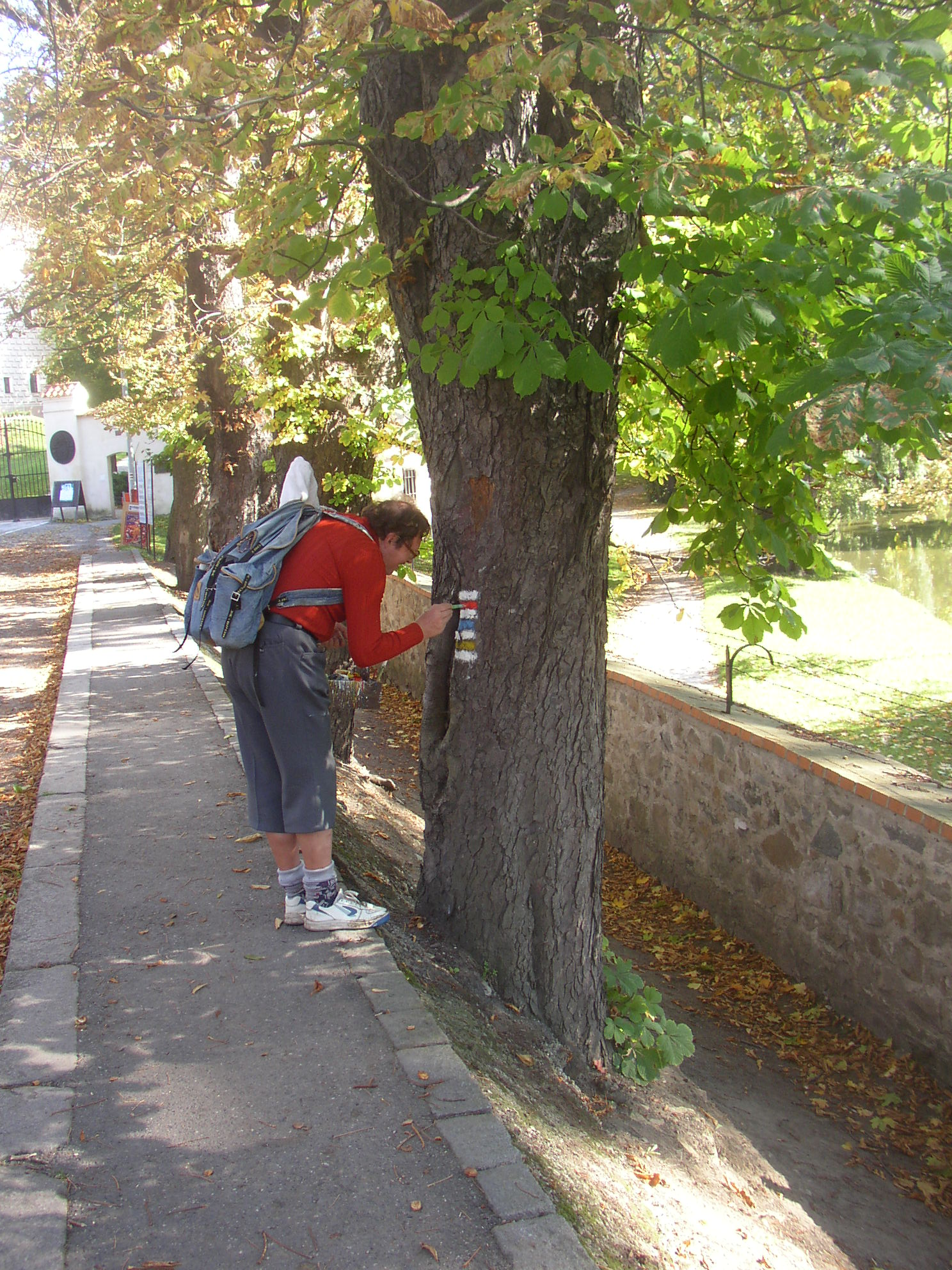 Maintenance of trail blazing in Březnice, Příbram District, Czech Republic.